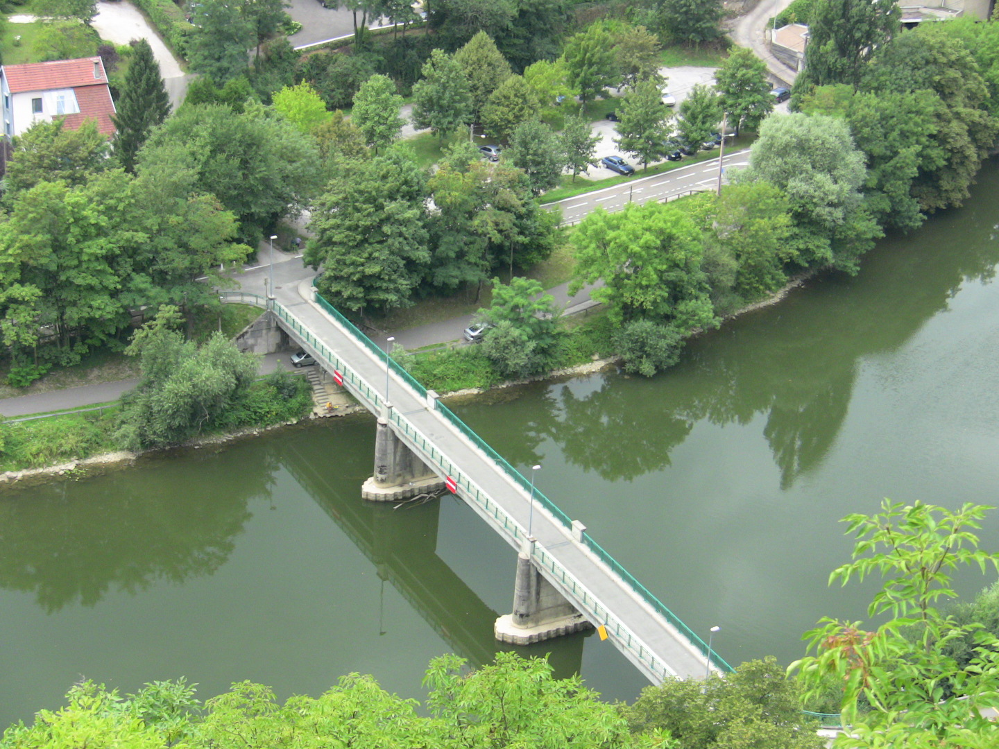 Mazagran bridge, located in Besançon (Doubs, France)